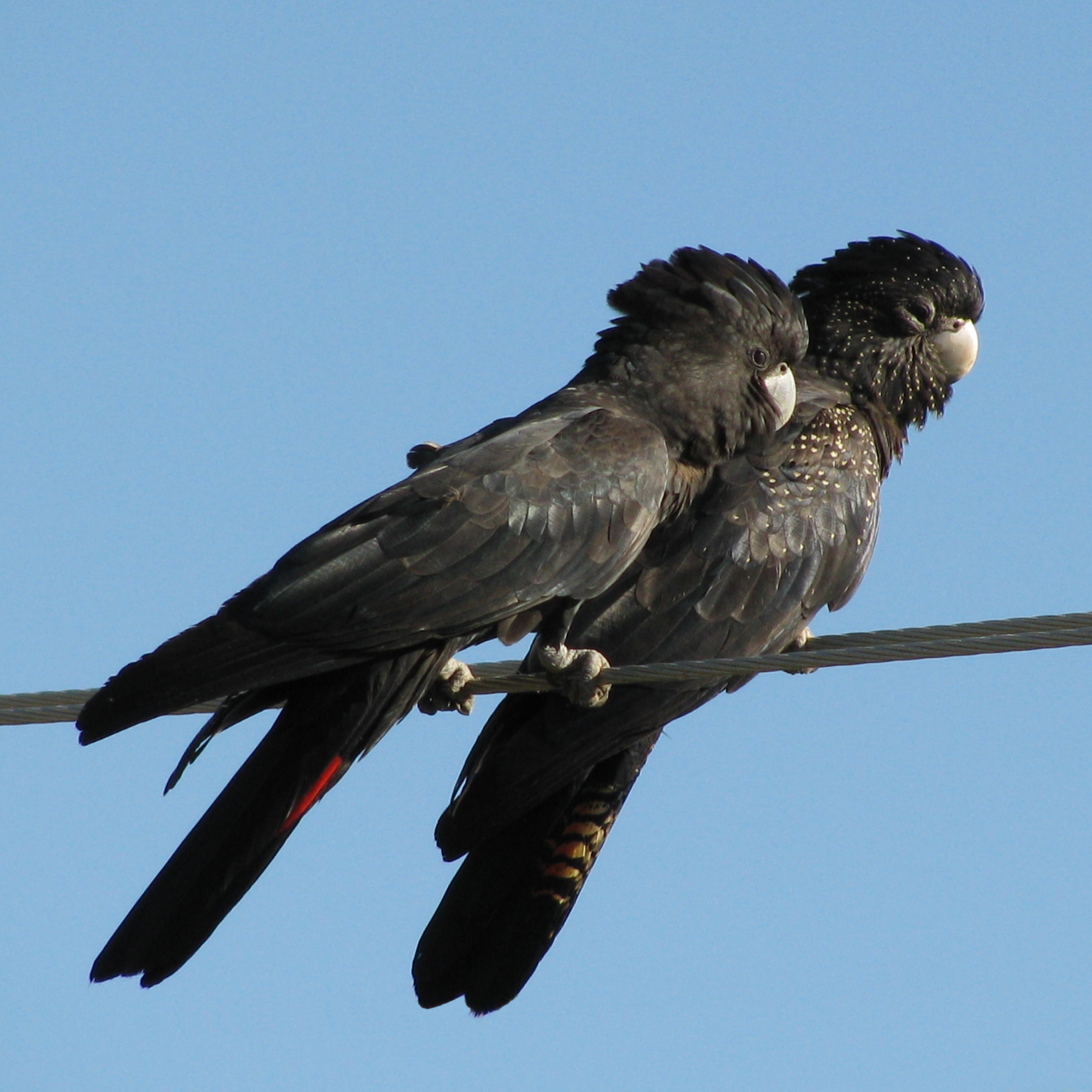 A pair of Red-tailed Black Cockatoos (also known as Banksian Black Cockatoo or Bank's Black Cockatoo) perching on a wire. Male on left and female on right.